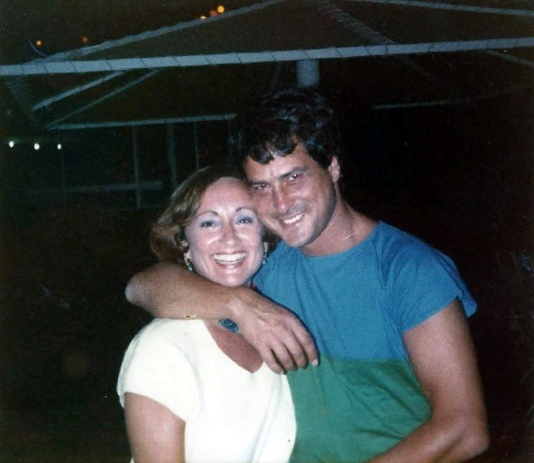 Dudu Topaz, an actor and talk show host from Israel, & Rachel Haramati, a Radio producer from Israel, in Kol Israel radio, Tel Aviv.